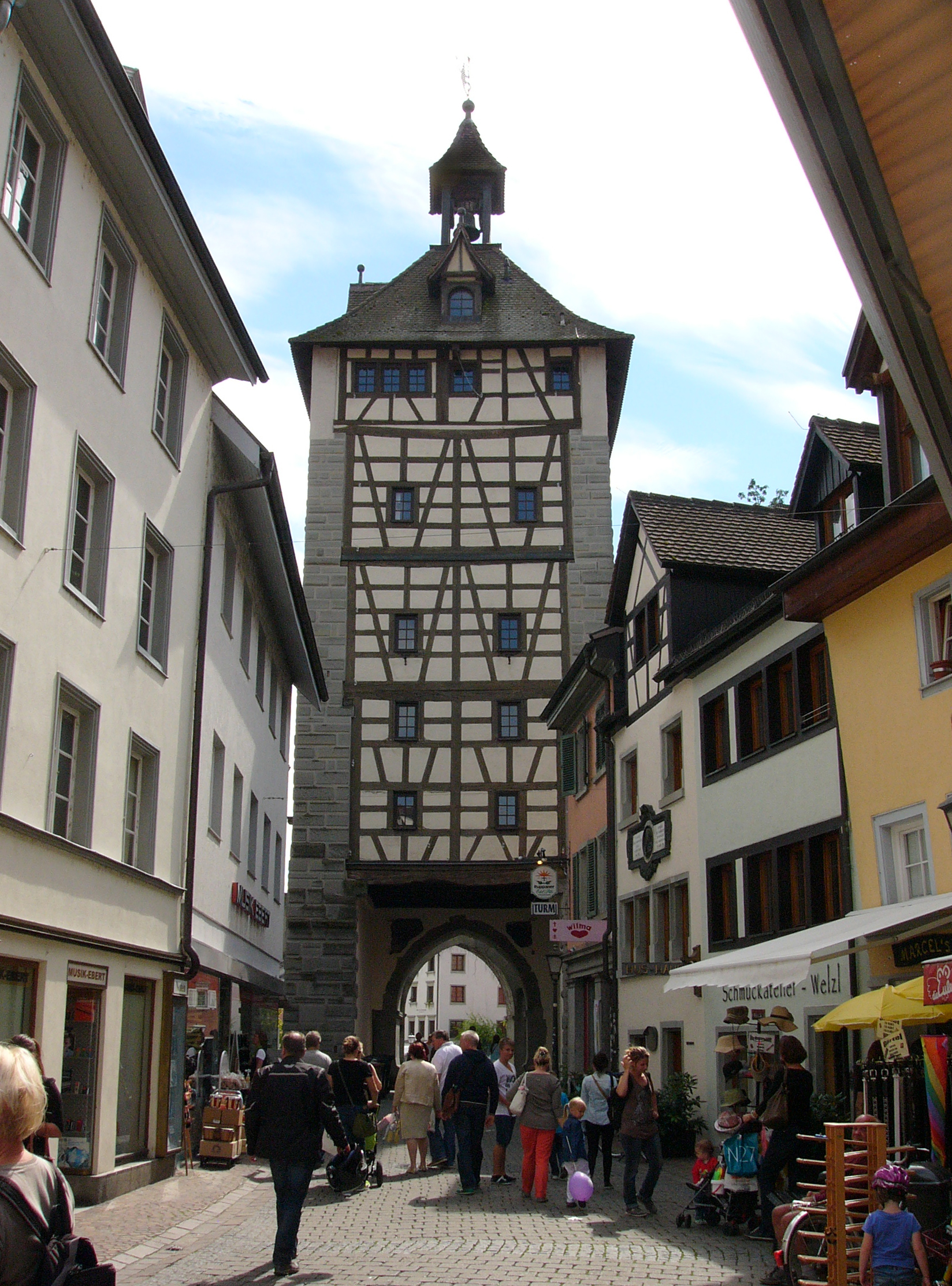 Old City of Constance, Germany - Schnetztor